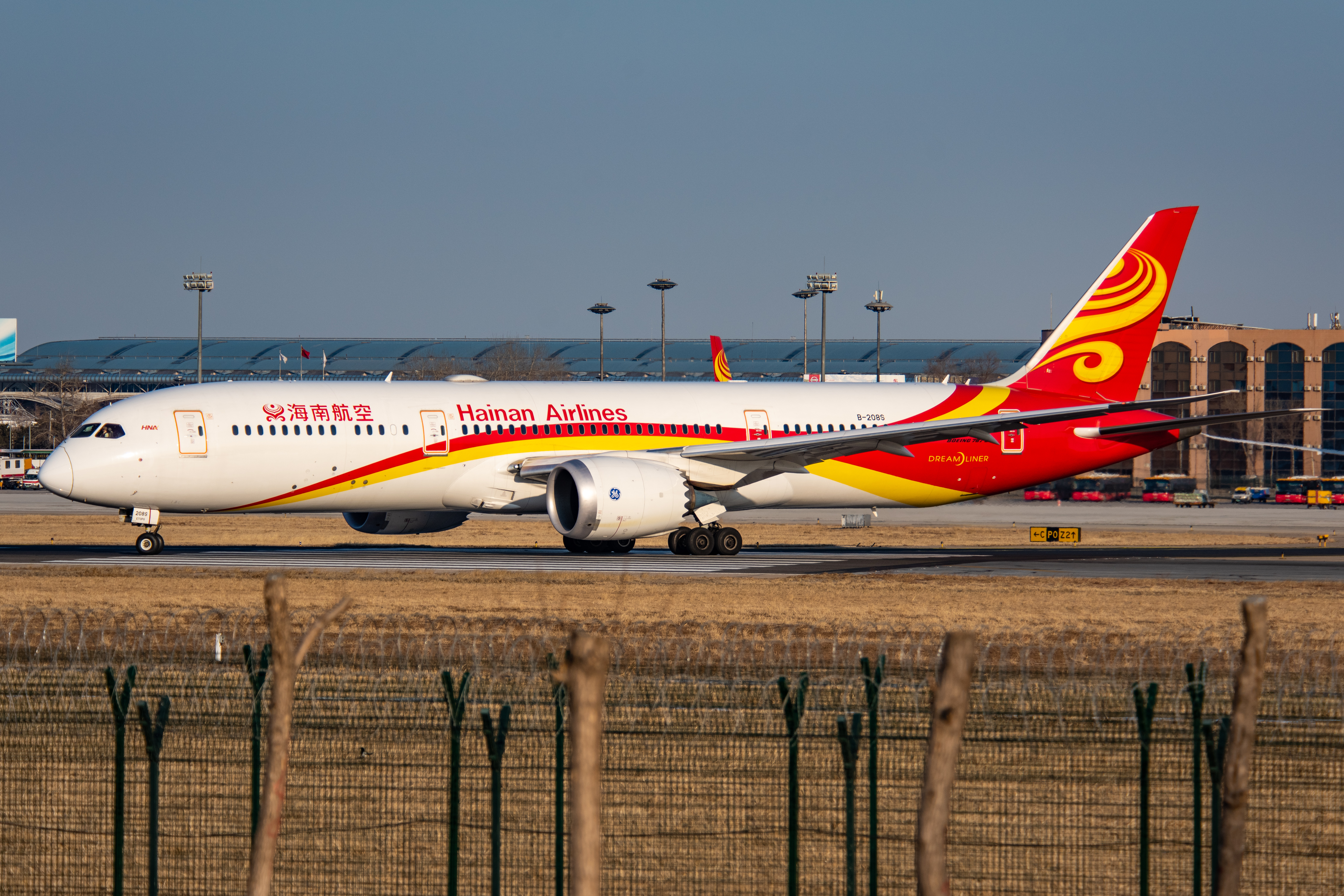 Hainan 7807 to Guangzhou, delayed by 90 minutes. This is a 78B...